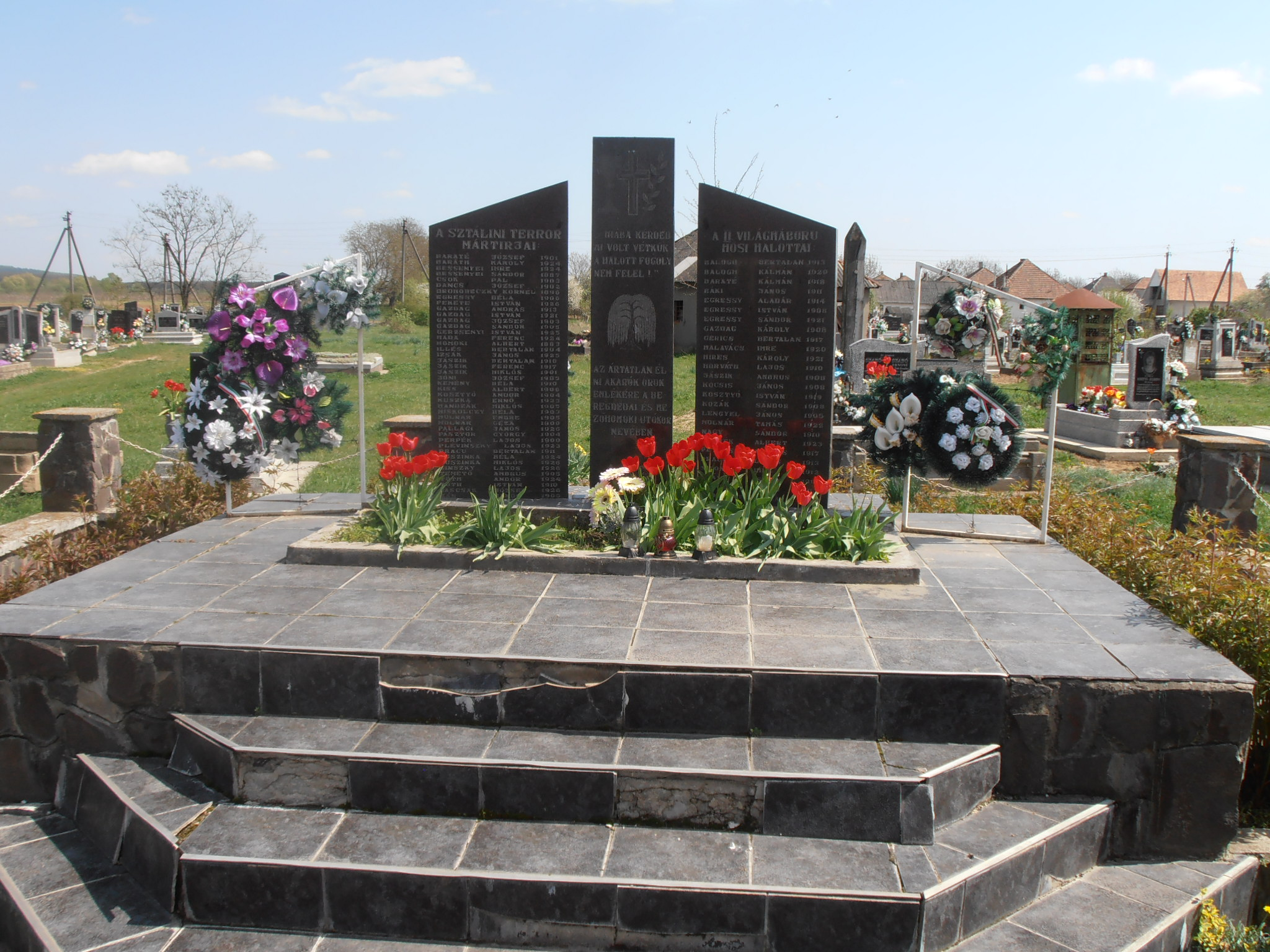 WW2 memorial in the cemetery of Diyda, Ukraine